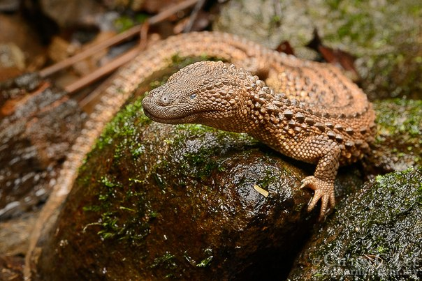 Correct photo of the animal.